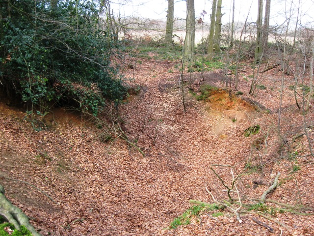 Small Quarry at Cholesbury When I first visited the Camp, more than 30 years ago there was an industrial site to the north east of this area which I believe made bricks. I suspect that this small quarry was an excavation for brick earth. (There are many other places on the top of the Chilterns where brick earth occurs).